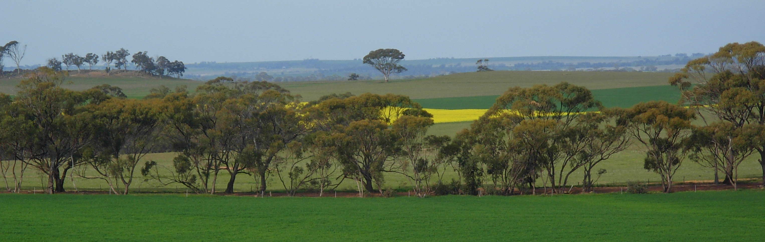 Photo taken 28th August 2008 wheatbelt photo trip Scenery near Centenary Hill east of Northam, Western AustraliaNortham, Western Australia